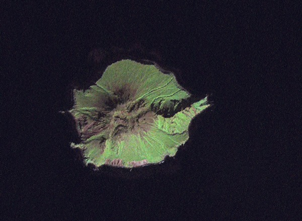 Landsat 7 image of the Kuril Island of Antsiferova, 14.25 meter resolution. Based on Global Orthorectified Landsat dataset (ETM+); WRS_PATH 101, WRS_ROW 025. Generated using panchromatic band for intensity, and color from "true-color" combination of 28.5 meter resolution bands 3, 2, & 1 (as R, G, B respectively). Data combined and color curves enhanced in the Gimp.